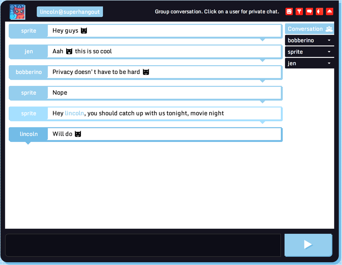 Cryptocat chat interface.